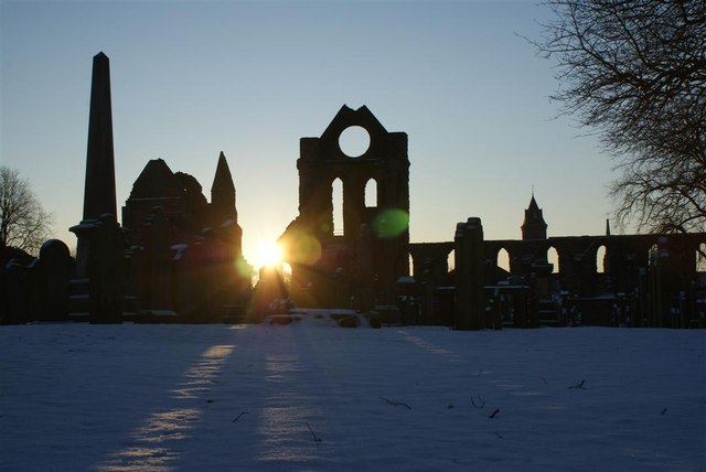 Morning light Morning sunshine behind Arbroath Abbey. Picture taken looking across the Arbroath Abbey graveyard.